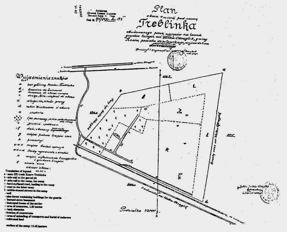 Plan of Treblinka, drawn in 1945 by the Polish surveyor K. Trautsolt; with the rubber stamp possibly of the Main Commission for the Investigation of Nazi Crimes in Poland (Główna Komisja Badania Zbrodni Hitlerowskich w Polsce) or more likely of the District Court (illegible), and signed by Łukaszkiewicz. Simplified version (with already typed legend) was published in the book by Z. Łukaszkiewicz, titled Obóz straceń w Treblince, Państwowy Instytut Wydawniczy PIW, Warsaw 1946.